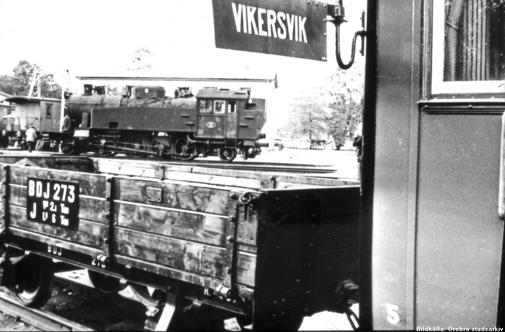 Steam locomotive at Vikersvik railway station outside Nora, Sweden